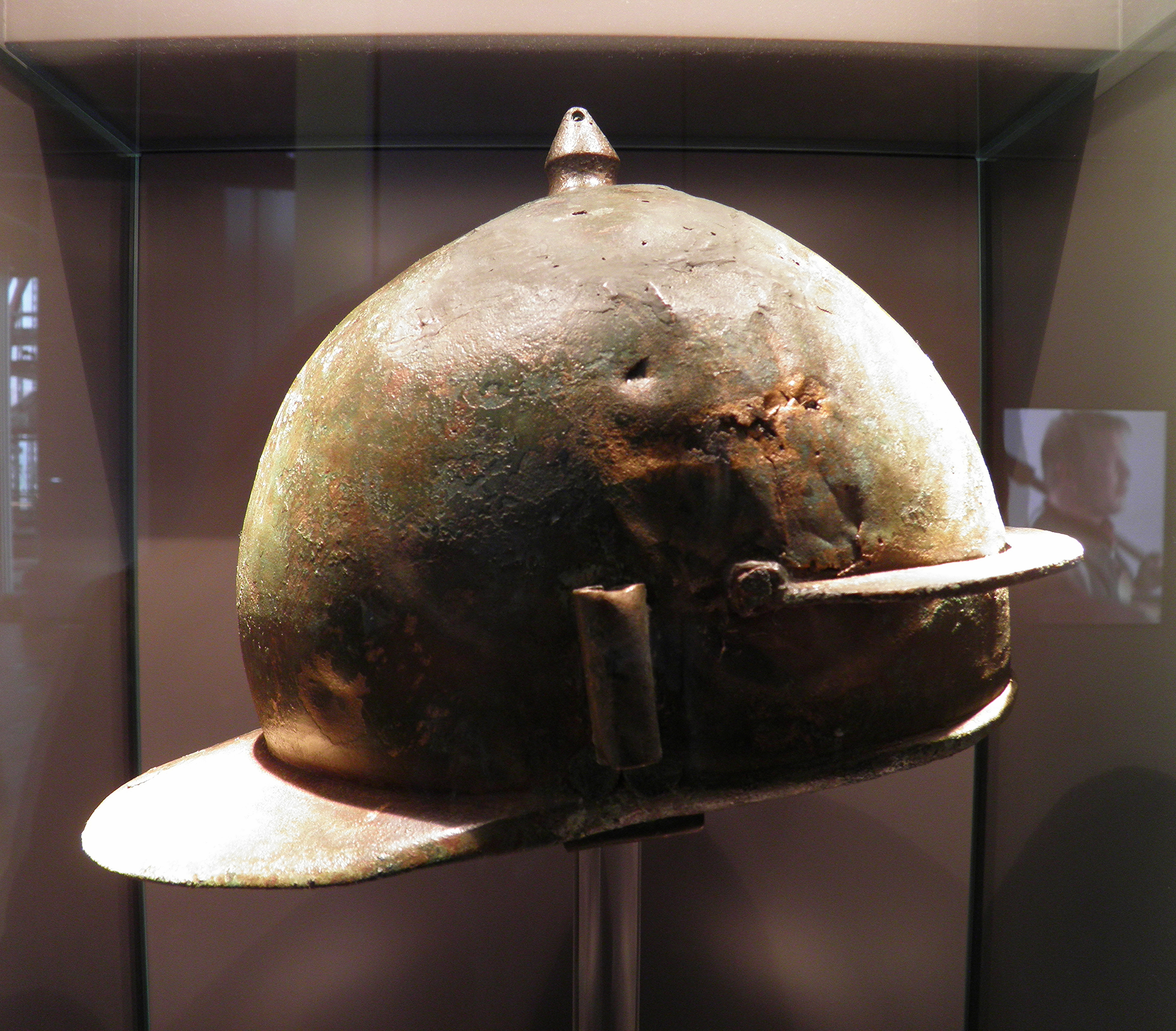 Bronze Legionary Helmet, 1st half of the 1st century AD, Xanten, Germany